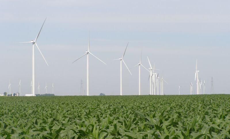 Eastern Edge of the Benton County Wind Farm